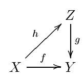 lifting diagram (see lift (mathematics)), created with Latex using the following code \usepackage{xypic} \begin{equation} \xymatrix{ & Z \ar[d]^g \\ X \ar[r]^f \ar[ur]^h & Y } \end{equation}